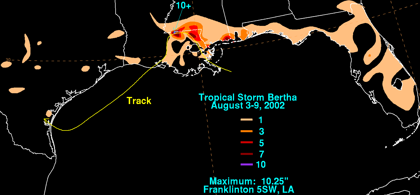 Storm total rainfall map of Tropical Storm Bertha during August 2002.